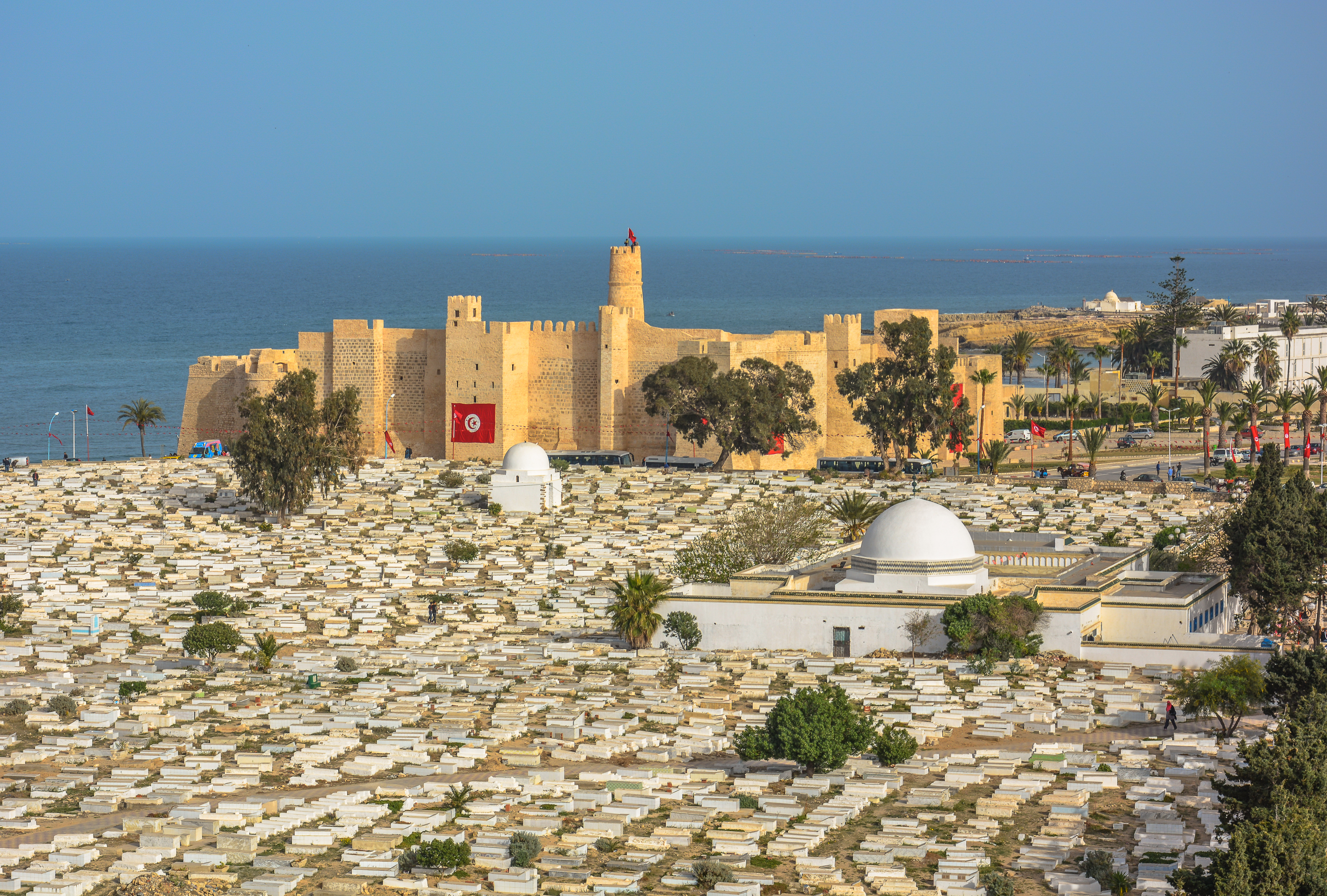 View of the Kasba, in Tunisia. This medieval fortress, built in the end of the 8th century AD, is consedred as one of the oldest and biggest Ribats in North Africa